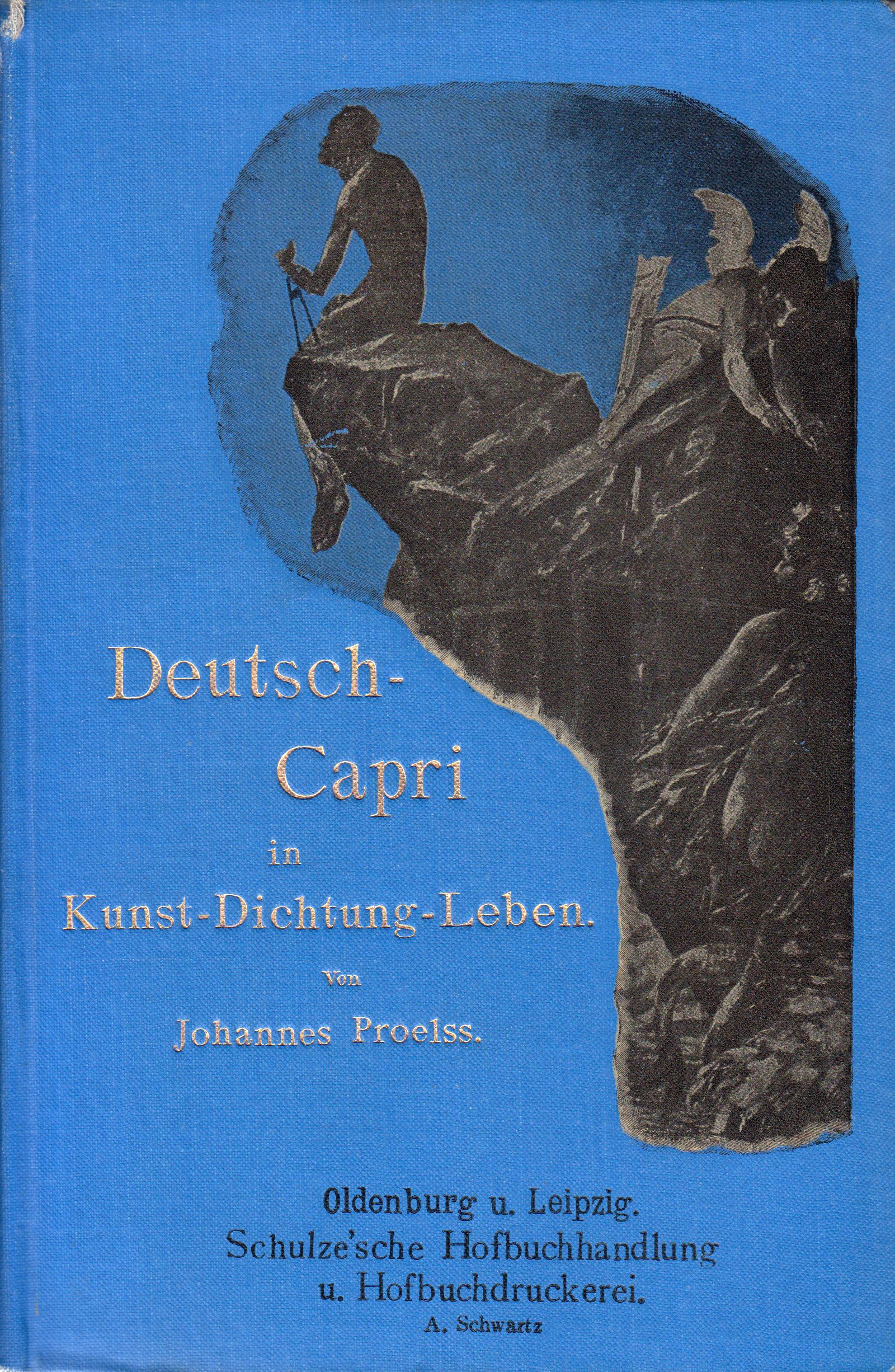 Cover of book "Deutsch-Capri in Kunst, Dichtung, Leben".